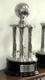 One of the Copa Colombia trophies CD Los Millonarios won in the early 1950s